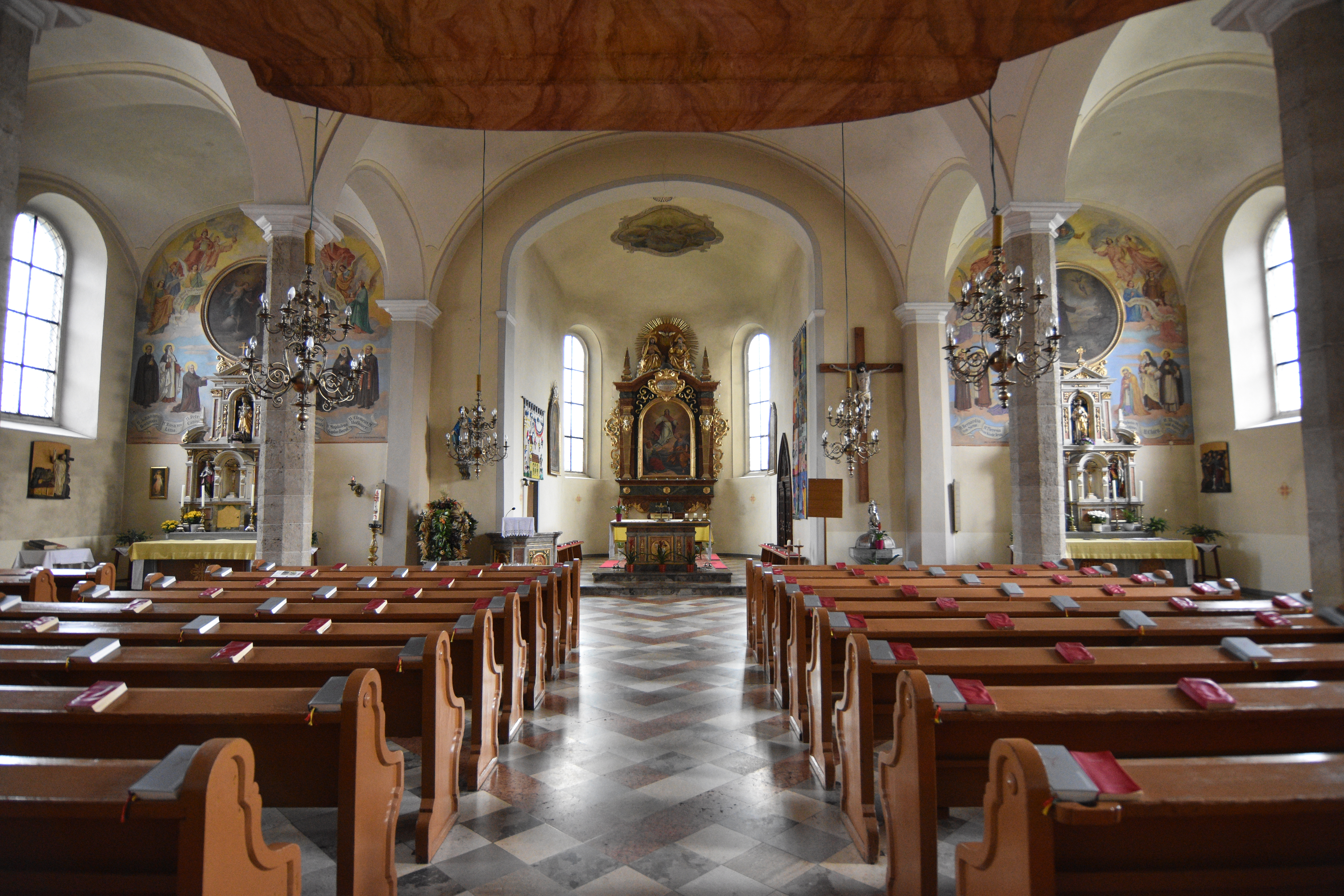 Church Pfarrkirche Ligist - Interior